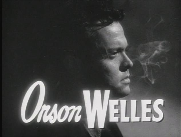 Screenshot of Orson Welles in The Lady from Shanghai trailer.